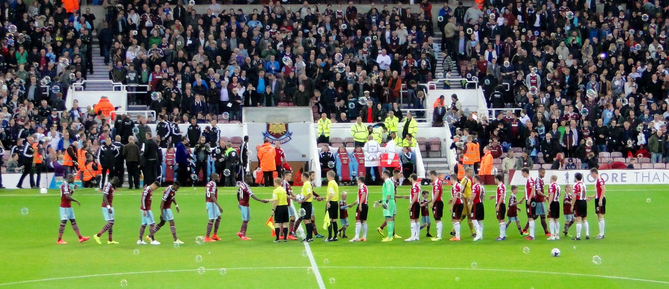 The players of West Ham United and Sheffield United line-up before their Football League Cup game at the Boleyn Ground, August 2014.